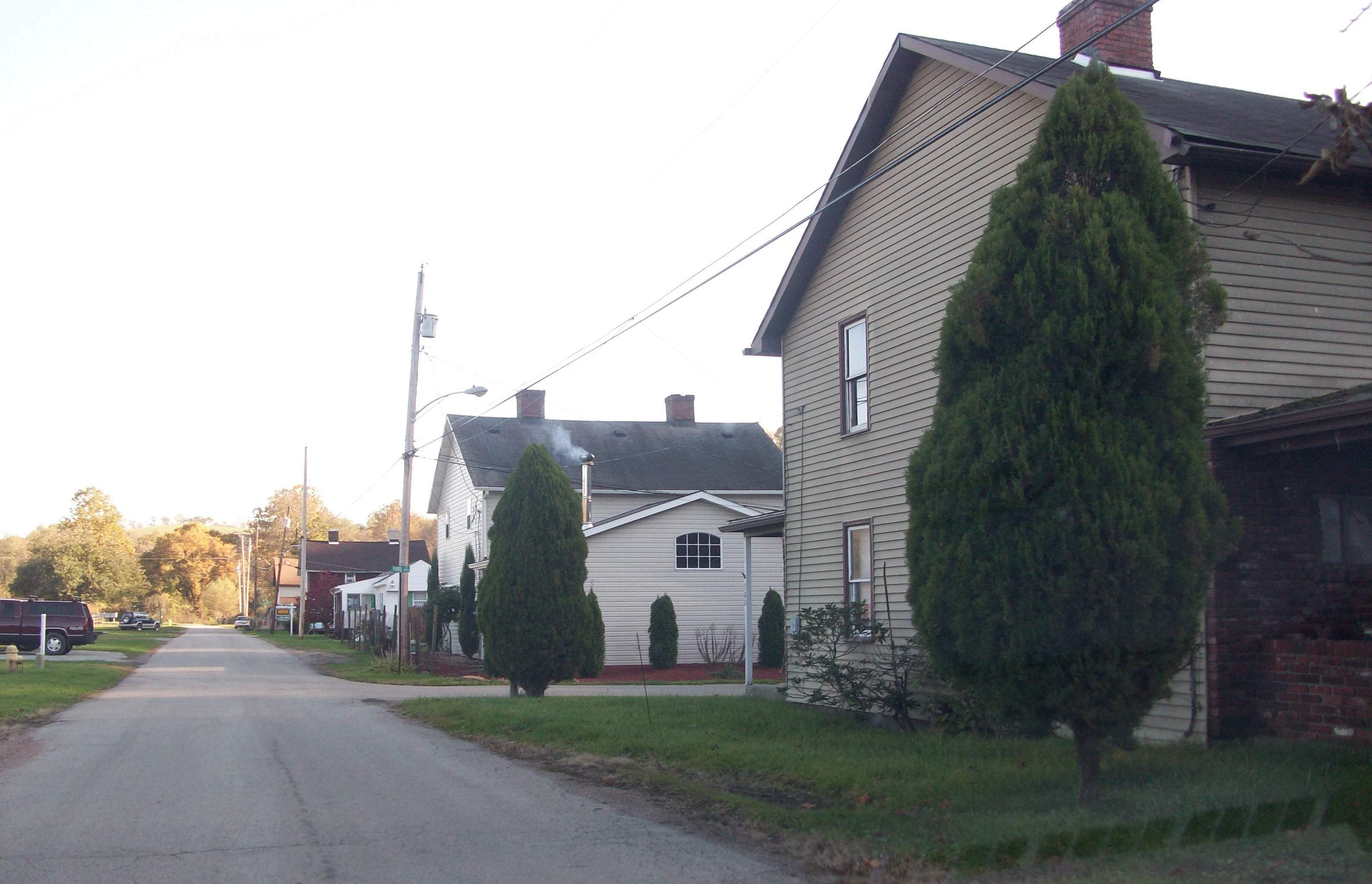 Historic company homes within the Whitsett Historic District in Perry Township, Fayette County, Pennsylvania.